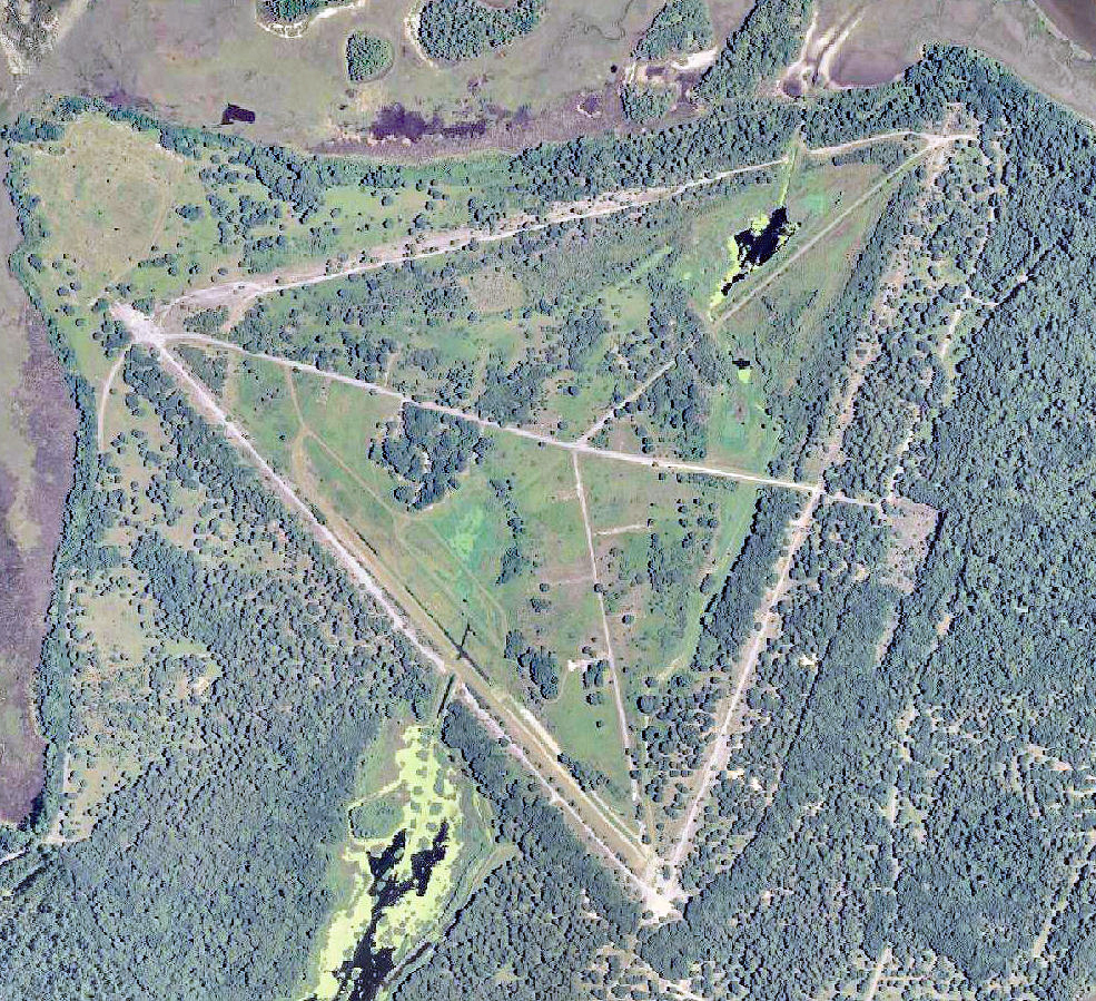 USGS digital orthophoto of Harris Neck Army Airfield in the U.S. state of Georgia